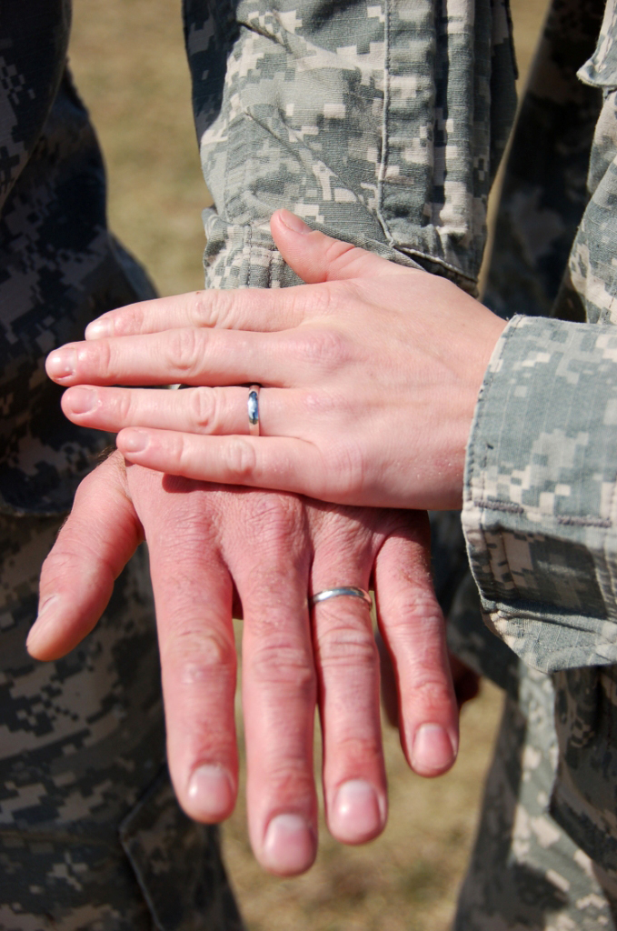 There are more than 20,000 dual military couples in the U.S. Army. The 443rd, an Army Reserve unit based out of Lincoln Neb., is home to five married couples who are scheduled to deploy to Kuwait where they will be transporting equipment and supplies to troops in Iraq. Related story: Love the one you're with See more at Army.mil